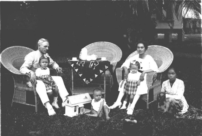 Family portrait of a Dutch-Indies family with children's nurse drinking tea in the garden.